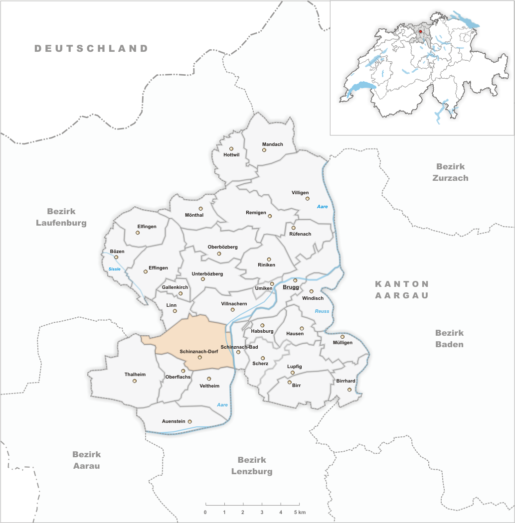 Municipality Schinznach-Dorf